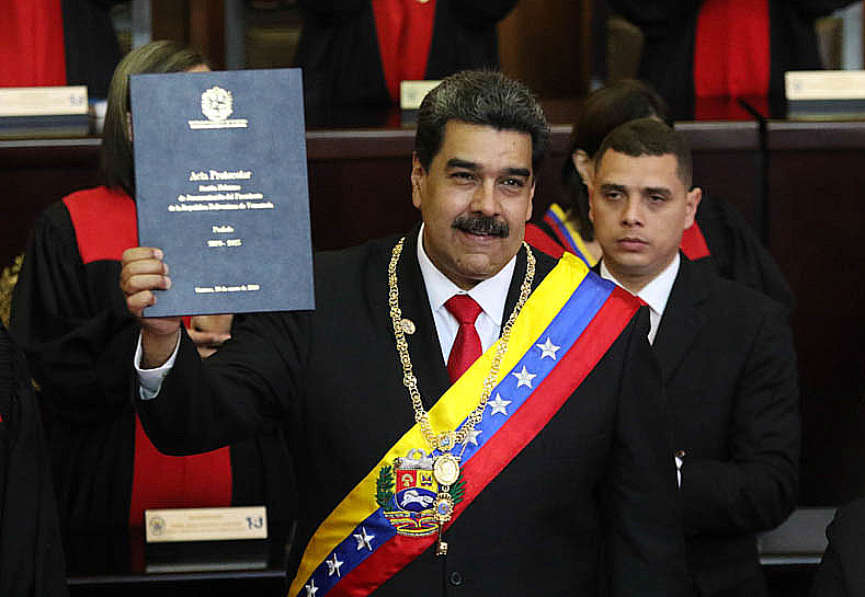 Nicolás Maduro holding his declaration after being sworn in for his second term